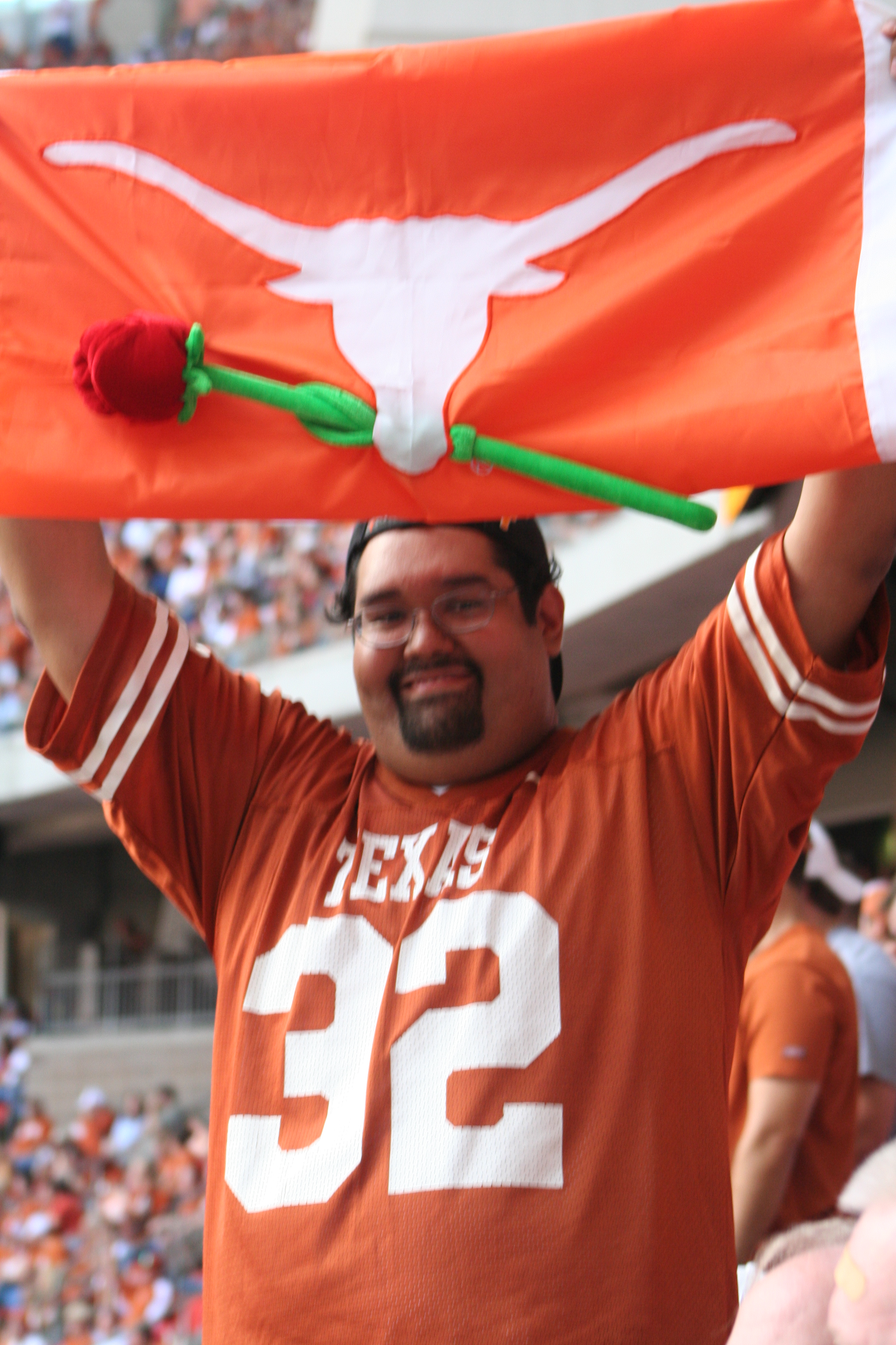 A football fan holds up a home-made flag cheering the 2005 Texas Longhorn football team on to victory in the Big 12 Conference championship game, earning them a spot to play for the National Championship. Photo by Johntex 2005.